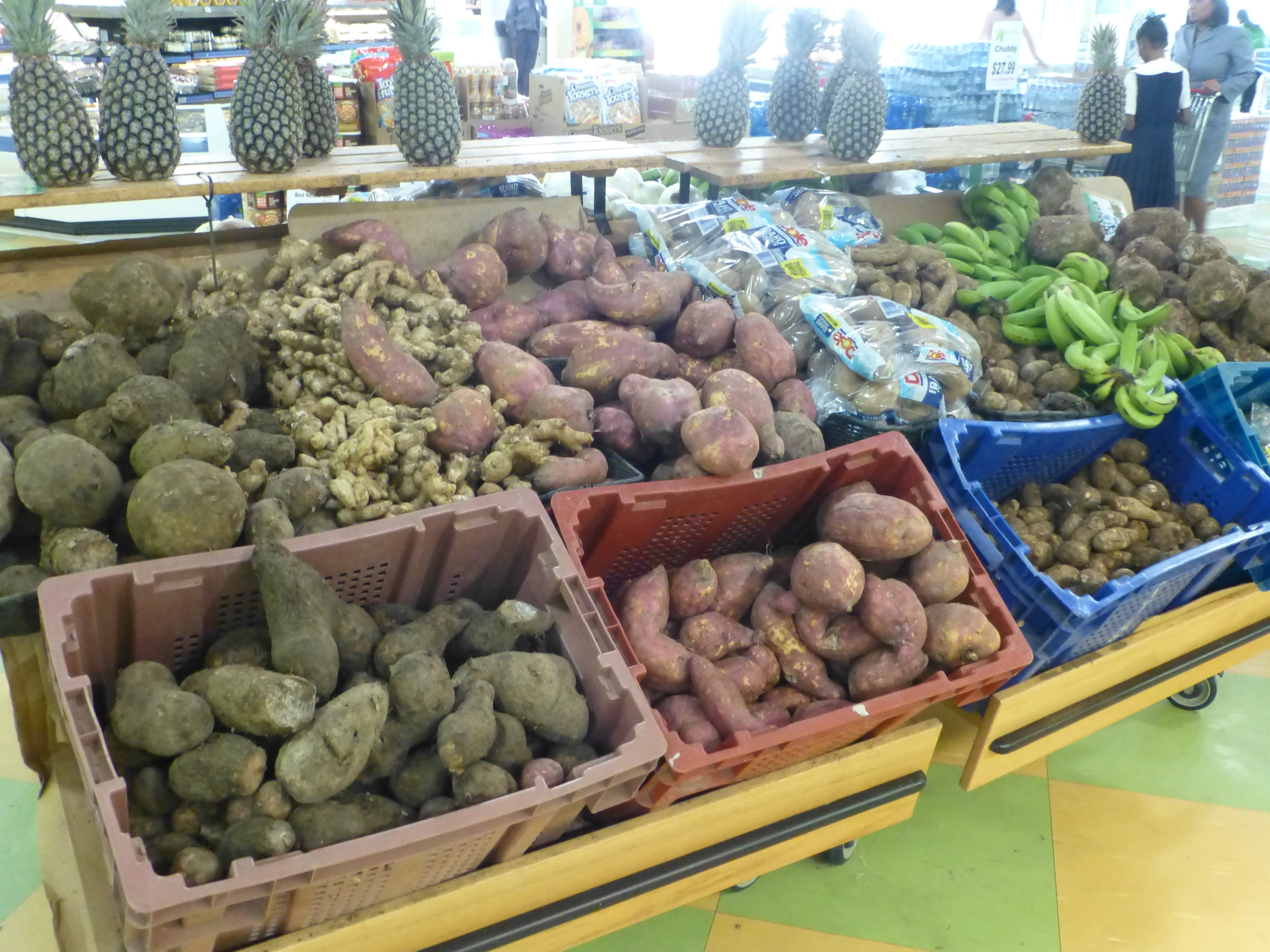 Ground provisions in a supermarket in Trincity mall, Trincity, Trinidad. The big dark tubers are yams, the banana style things are plantains, bottom right should be eddoes, the purple stuff should be sweet potatoes.